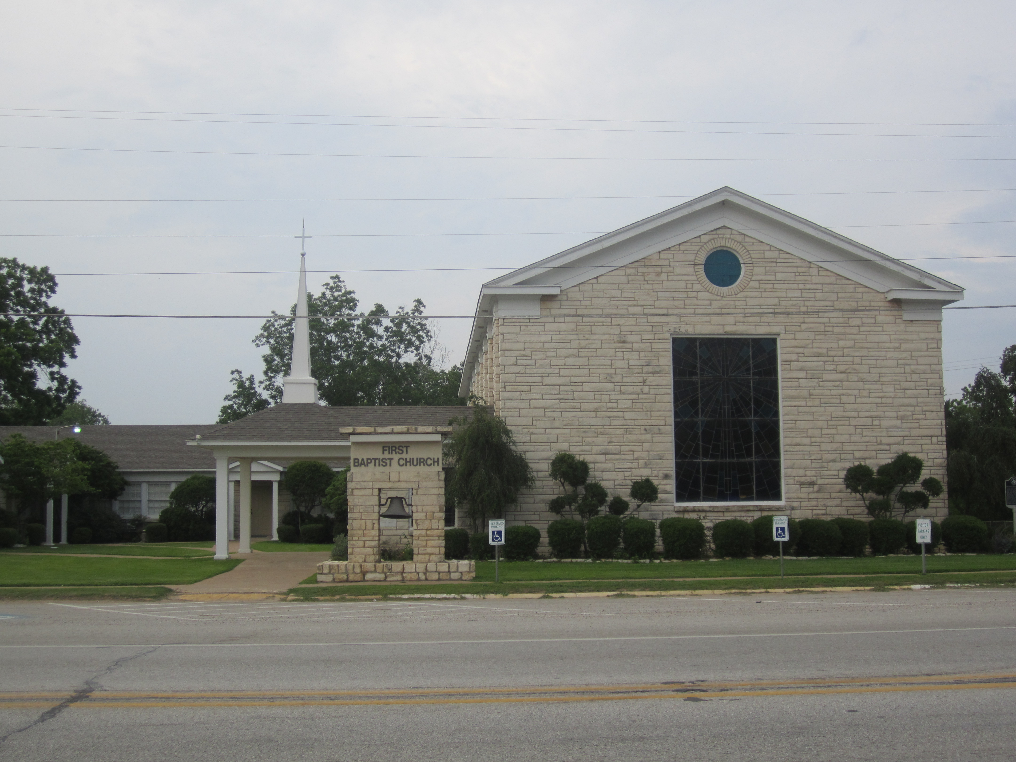 I took photo with Canon camera of First Baptist Church of Buffalo, TX.